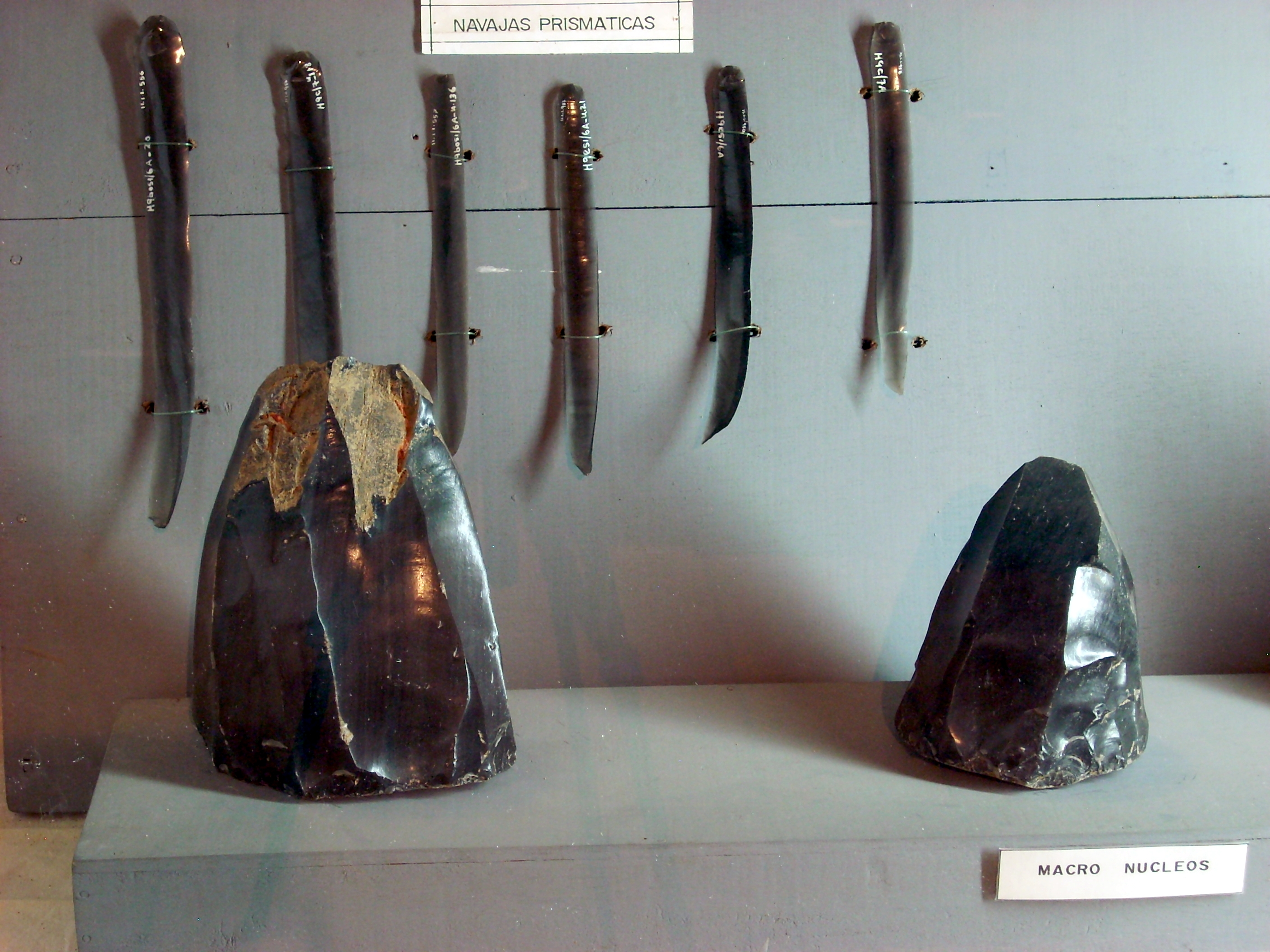 Obsidian artifacts excavated at Takalik Abaj, Retalhuleu, Guatemala. Prismatic blades and obsidian cores.